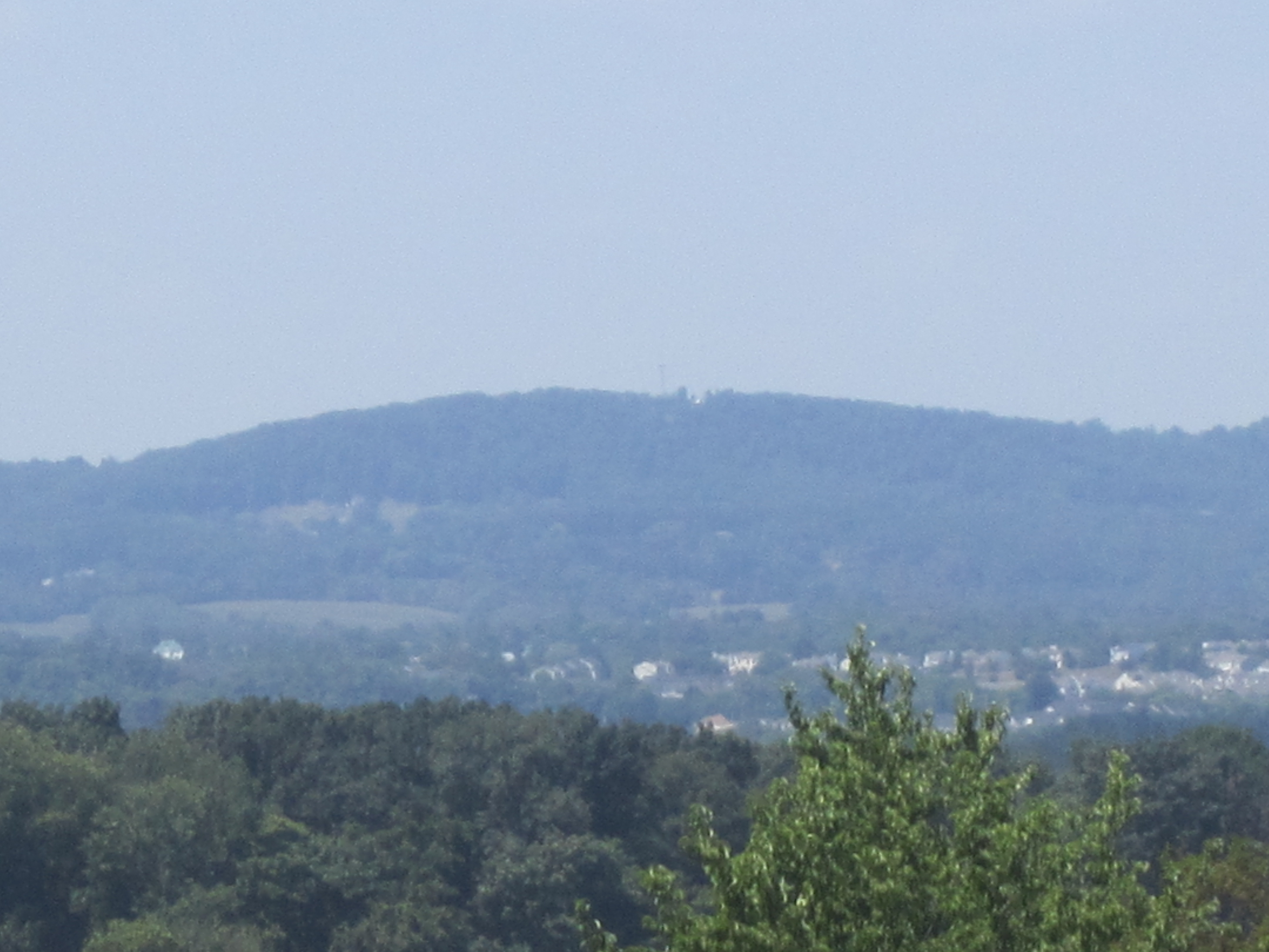 I took photo of Catoctin Mountain view near Frederick, MD, with Canon camera.